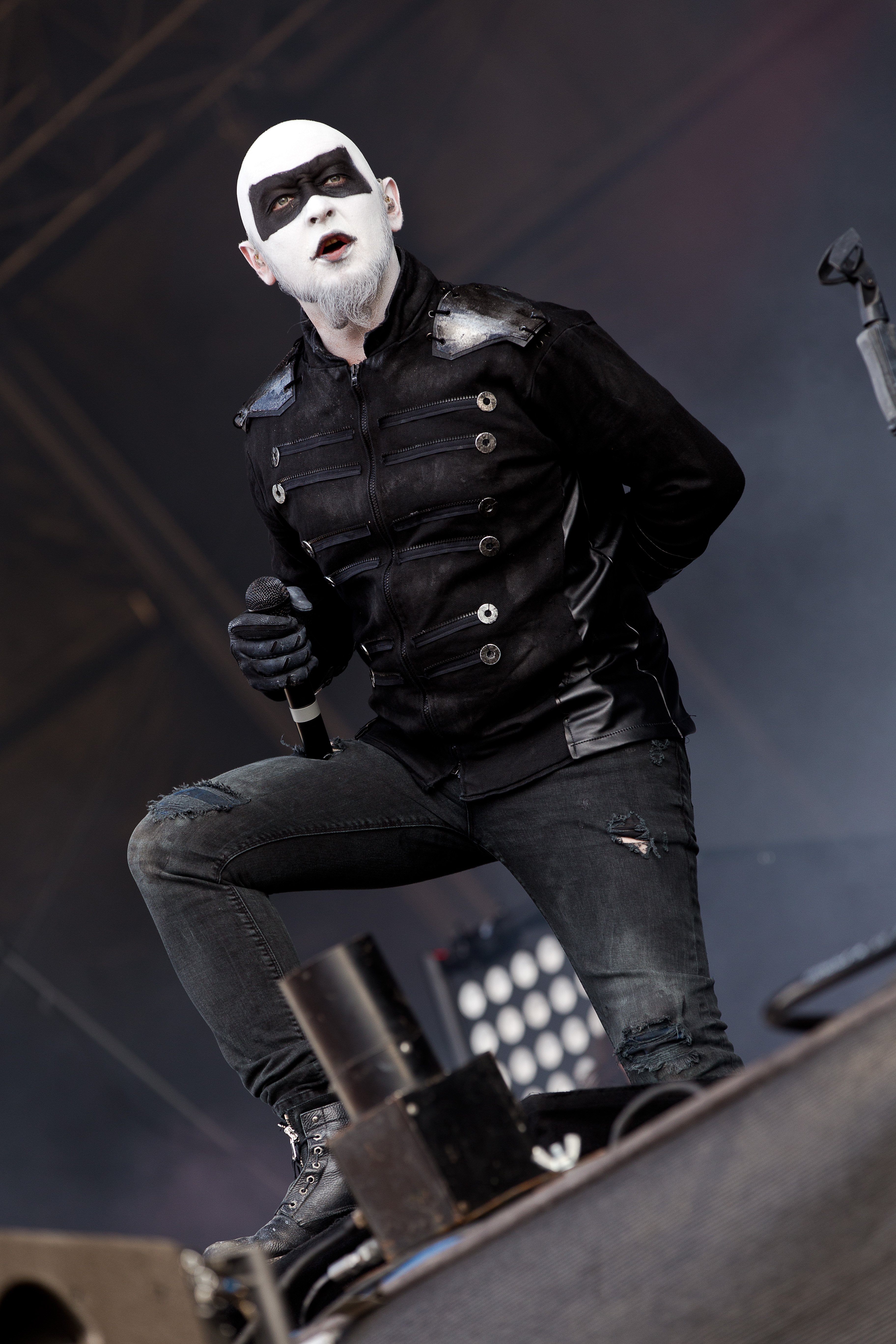 The German Neue Deutsche Härte band Hämatom at the Rockharz Open Air 2016 in Ballenstedt/Germany.